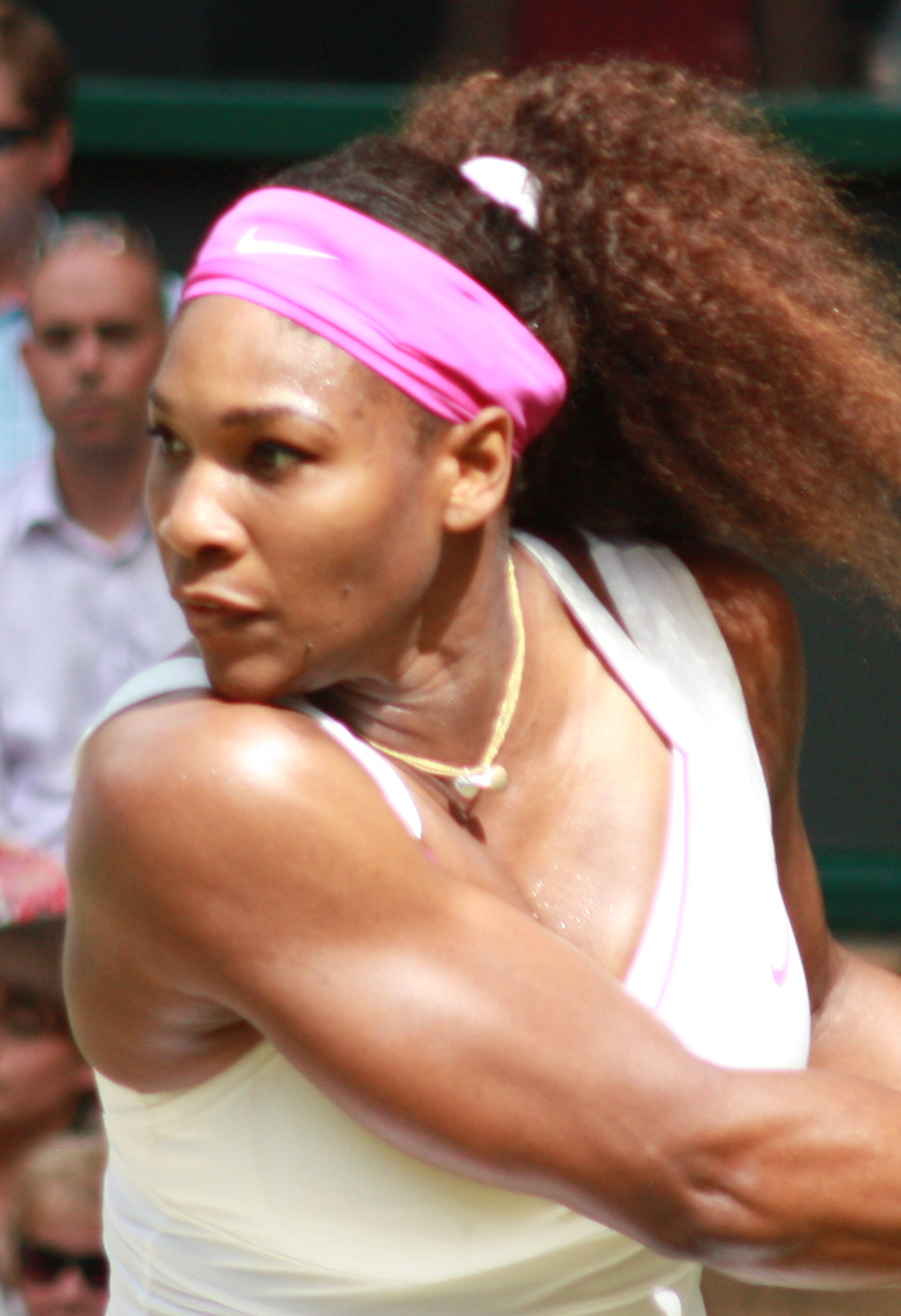 Wimbledon 2012 Day 10. Serena Williams in her semifinal match against Victoria Azarenka.